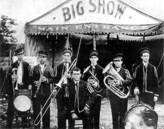 New Orleans, 1910. Jack Laine band in front of entertainment tent. Drummer/bandleader "Papa" Jack Laine seated in front. Standing left to right, Manuel Mello, cornet; Alcide "Yellow" Nunez, clarinet; Leonce Mello, trombone; Alfred "Baby" Laine, alto horn; "Chink" Martin Abraham, bass horn; Tim Harris, drums. The show tent was set up in a lot behind the old Canal Streetcar Barn, near the intersection of Bienville & N. White Streets.